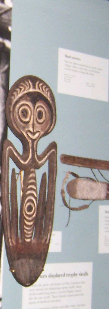 Papua New Guinea 2- head tray, in front of a picture of a 7- head tray. Picture taken at Field Museum of Natural History, Chicago I agree to multi-license all my images which were taken at the Field Museum